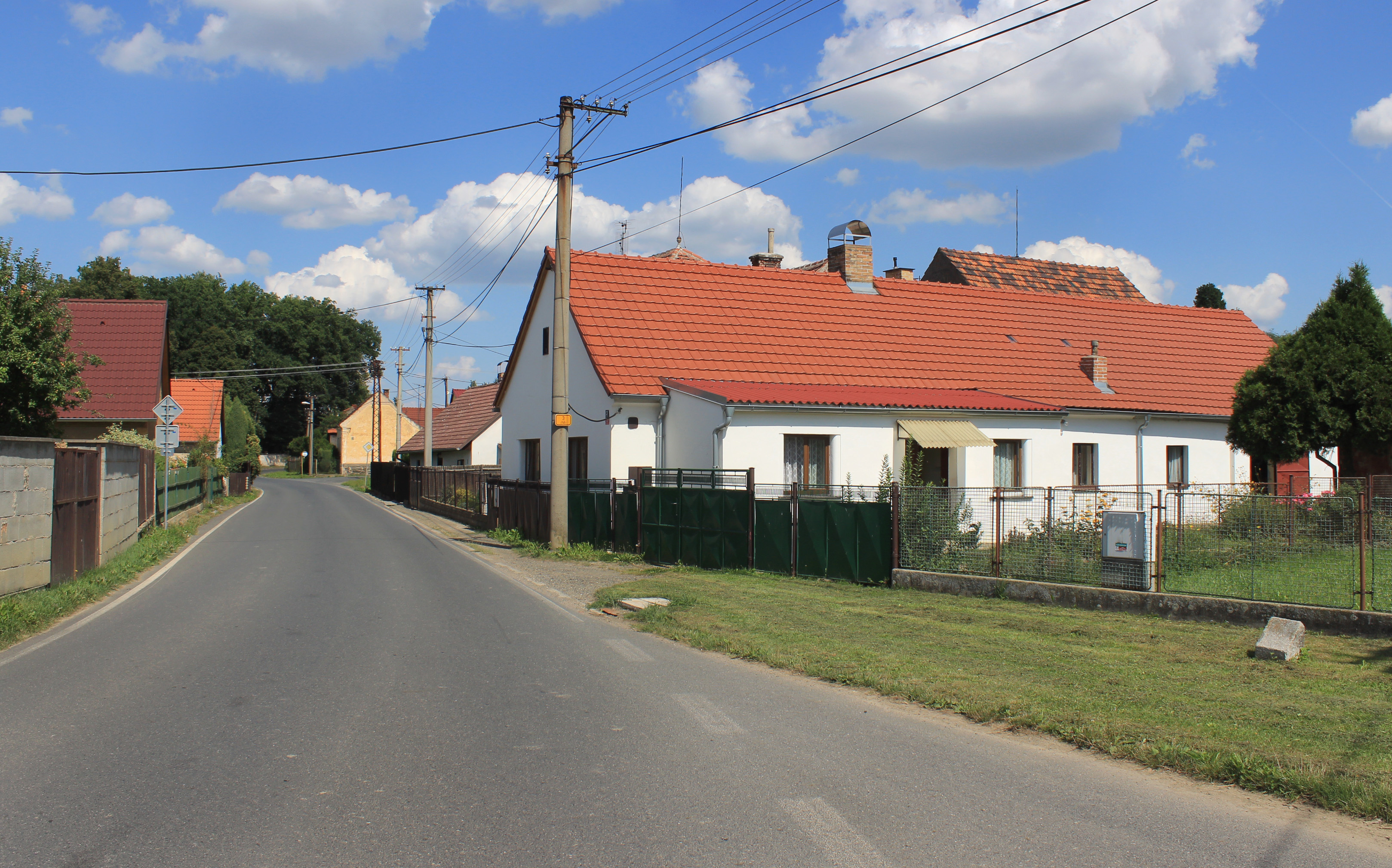 Road to Osvračín in Chotiměř, part of Blížejov, Czech Republic.